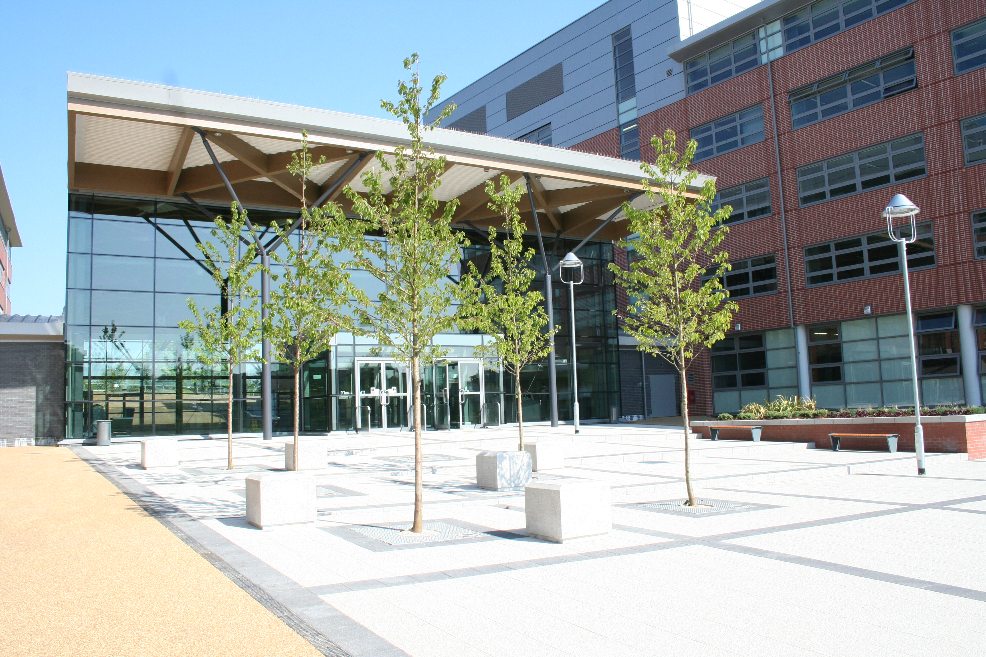 MidKent College's new Medway Campus, due to be opened September 2009